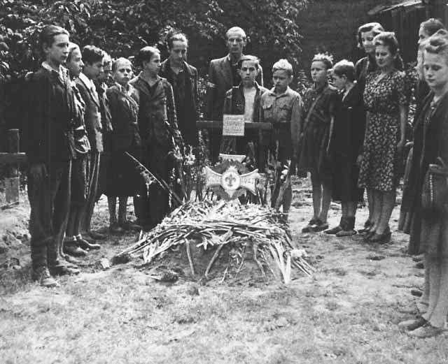 Warsaw Uprising: Funeral of Zbyszka Banasika "Banana", 16 year old postman of Scout Mail Service, at Okólnik gardens